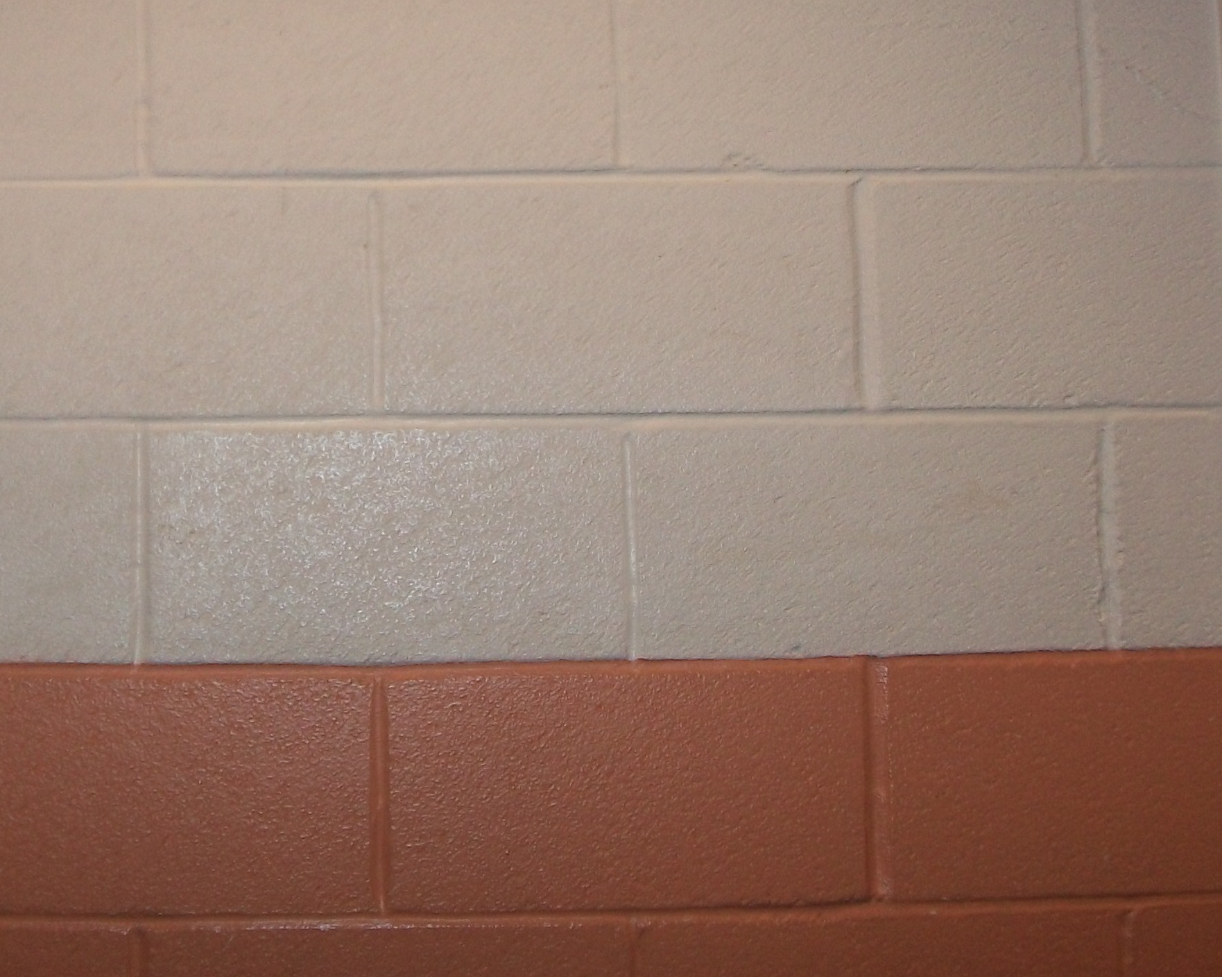 Painted breeze/cinder block inside wall